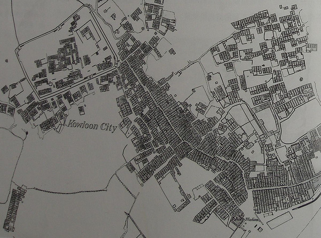 1940s map of the Walled City